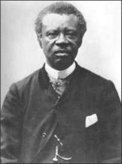 Edmond Dédé (1823-1903)